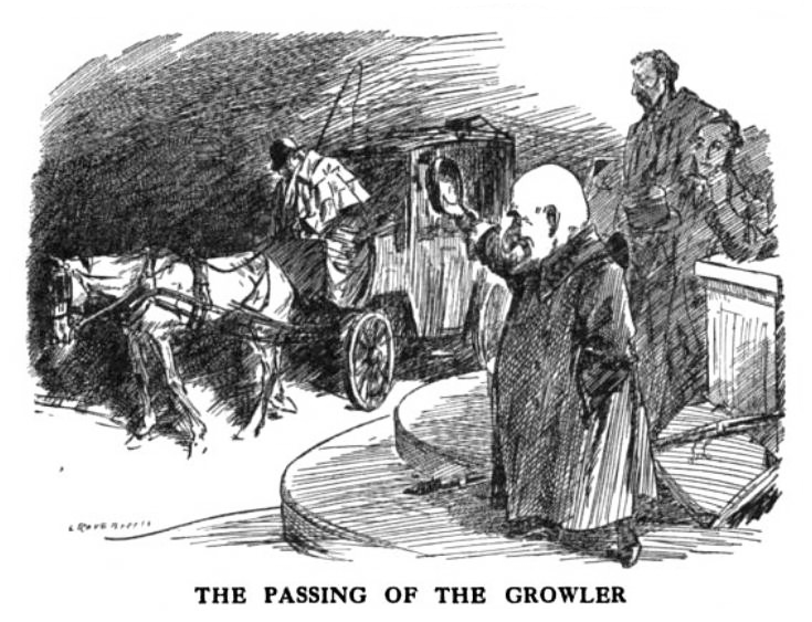 Cartoon from Punch, the British humor magazine, entitled "The Passing of the Growler" showing Mr. Punch bidding farewell to the "growler" which was being replaced by taxicabs. Caption: "Good-bye, old friend. You've been very useful to me, but your day is done." The two men in the rear right are former cartoonists for Punch Charles Keene and John Leech.